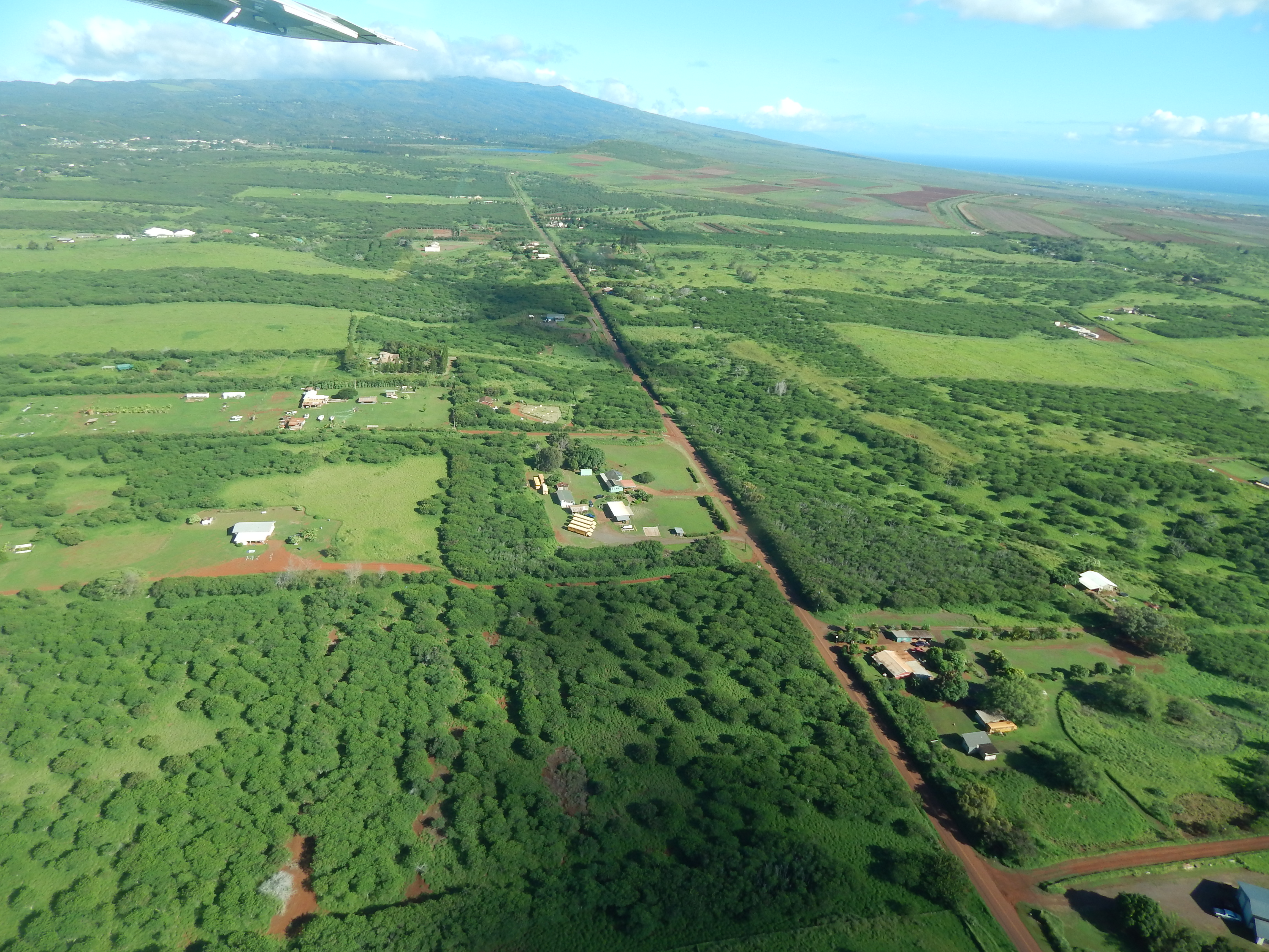 Leucaena leucocephala (Koa haole, lead tree) Aerial view at Hoolehua, Molokai, Hawaii. October 25, 2014 #141025-2538 Image Use Policy